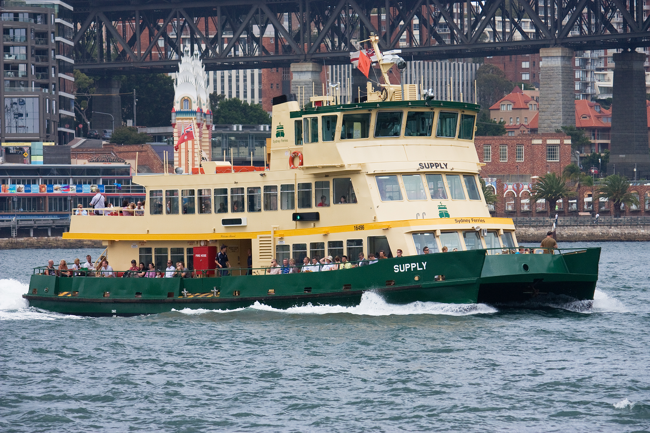 Sydney Harbour Ferry "Supply", Sydney Harbour, Sydney, Australia